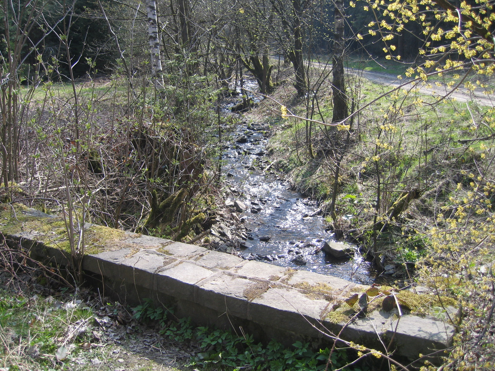 The Gelmke stream just upstream from where it is crossed by the E 11 European long-distance hiking trail, near Goslar, Lower Saxony, Germany.